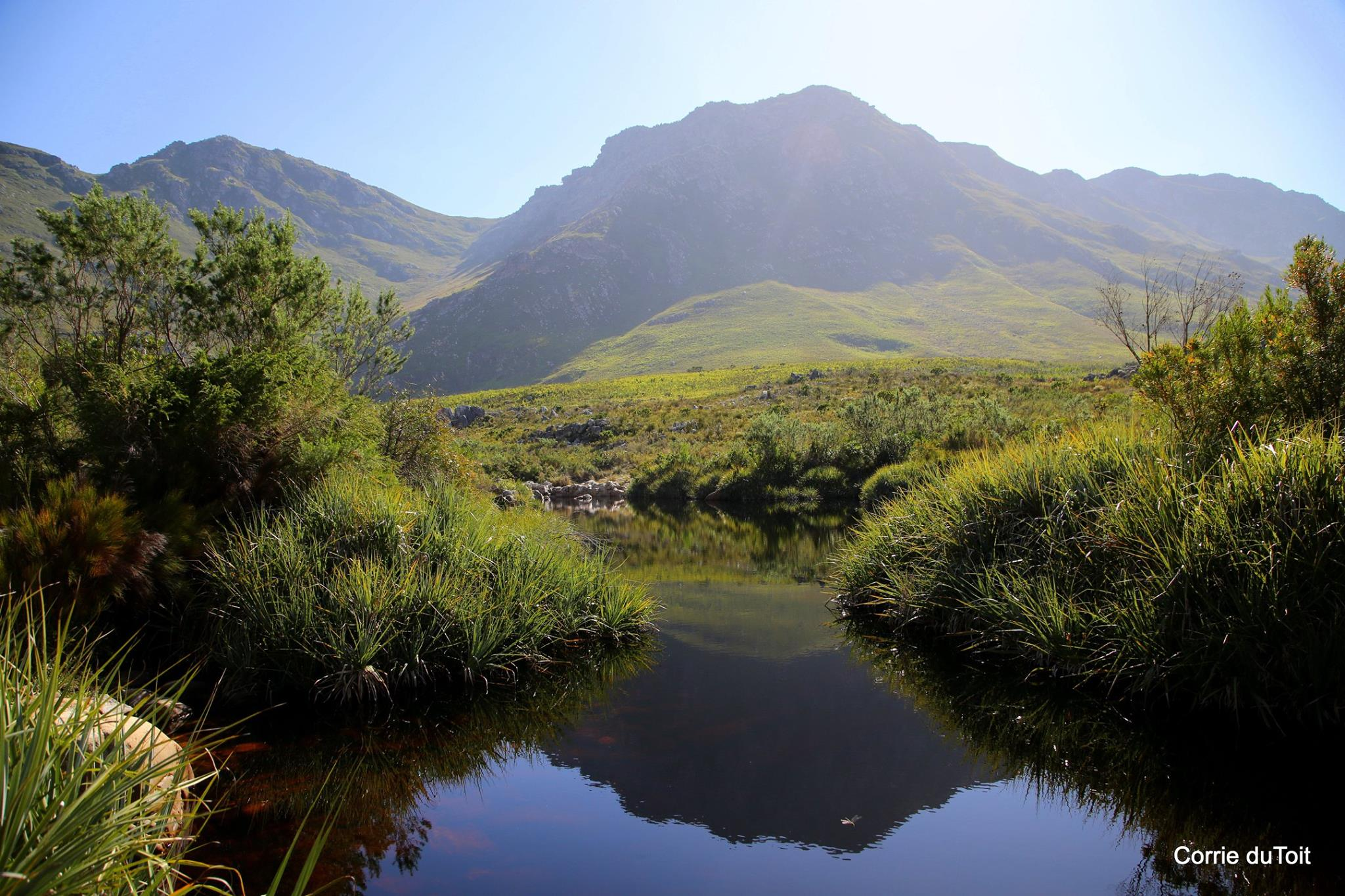 Palmietrivier, Kogelberg, Cape Province, South Africa - river banks covered in Prionium serratum